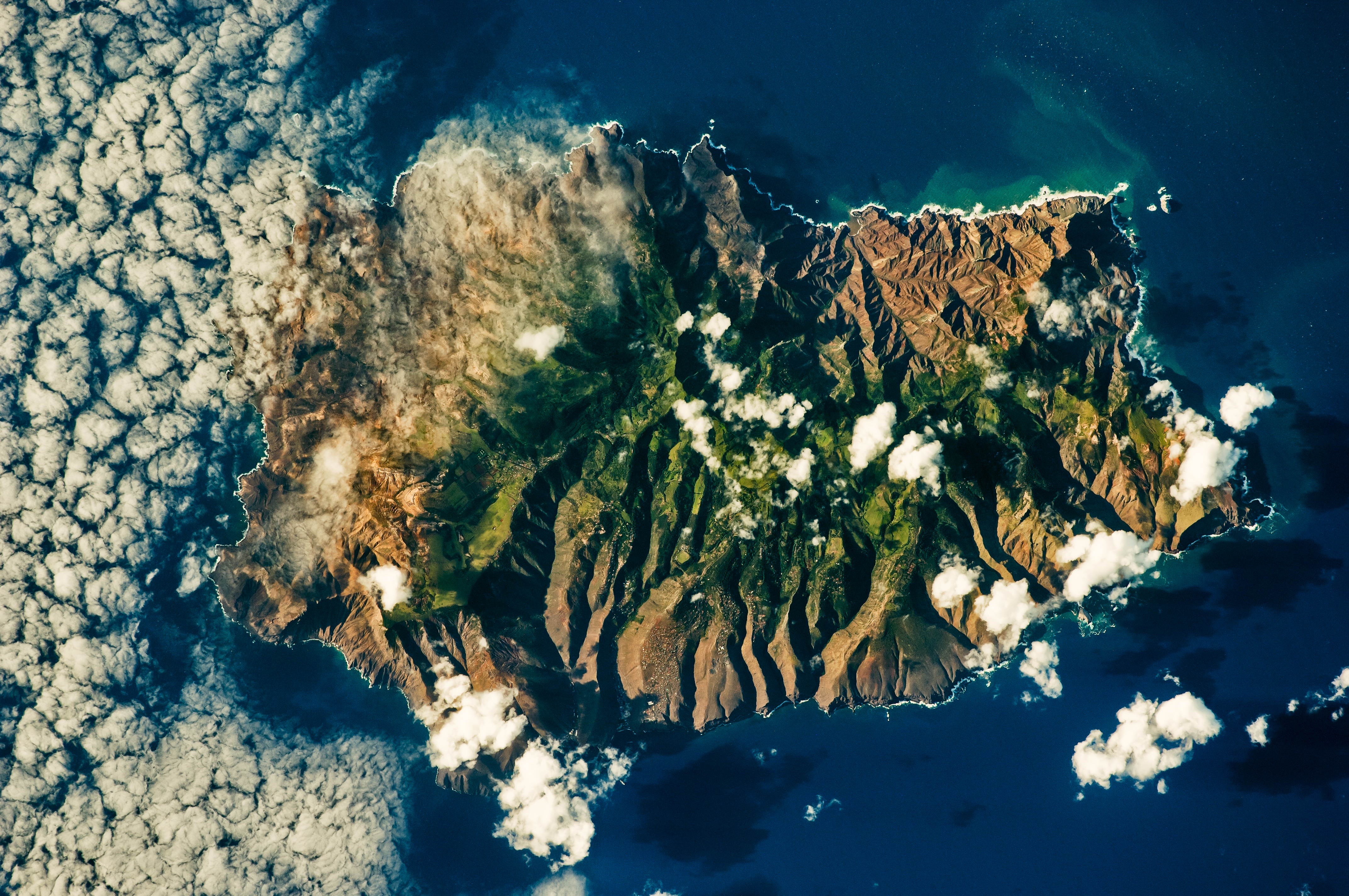 This astronaut photograph shows the island’s sharp peaks and deep ravines; the rugged topography results from erosion of the volcanic rocks that make up the island. The change in elevation from the coast to the interior creates a climate gradient. The higher, wetter centre is covered with green vegetation, whereas the lower coastal areas are drier and hotter, with little vegetation cover.